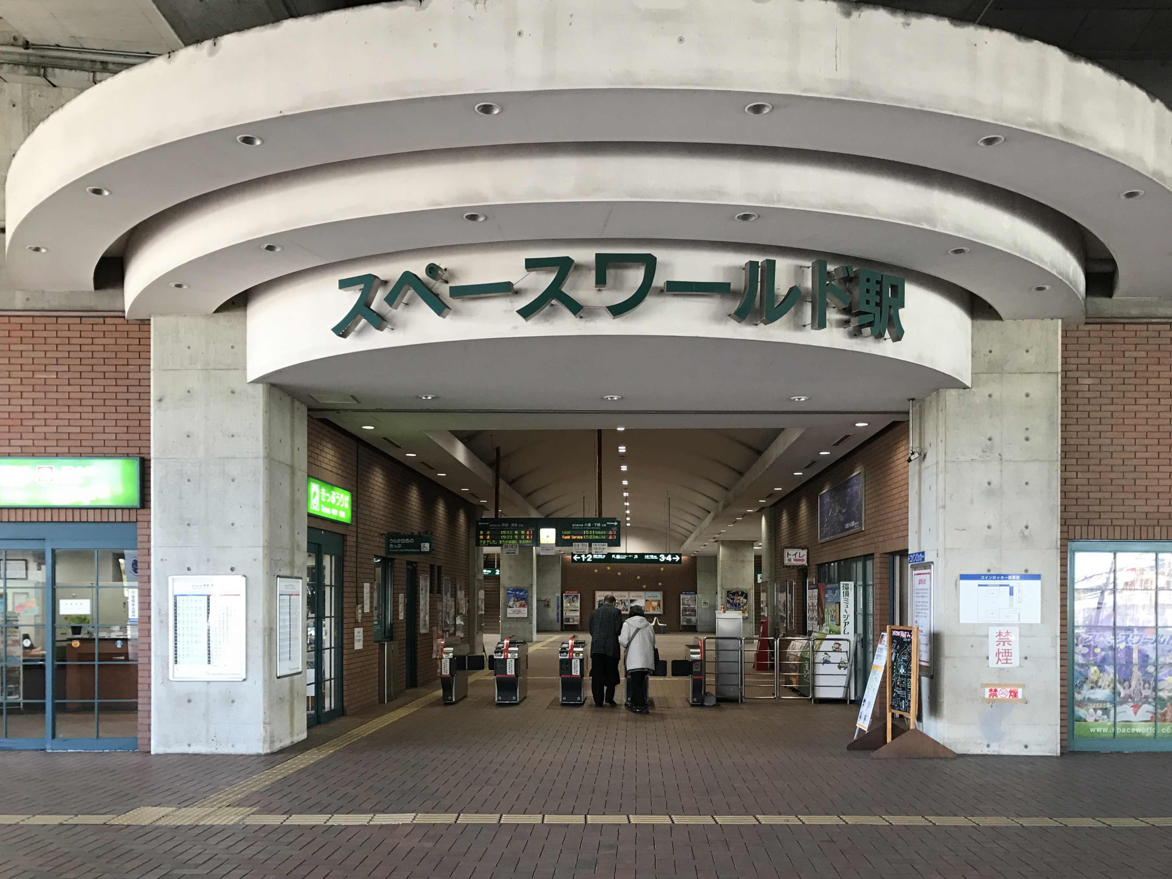 The entrance to Space World Station in Kitakyushu, Fukuoka Prefecture, Japan